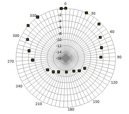 V1 Sound Field